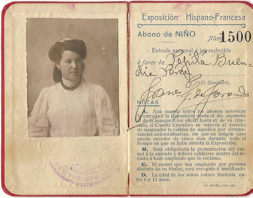 Ticket from Hispano-French Exposition of 1908.